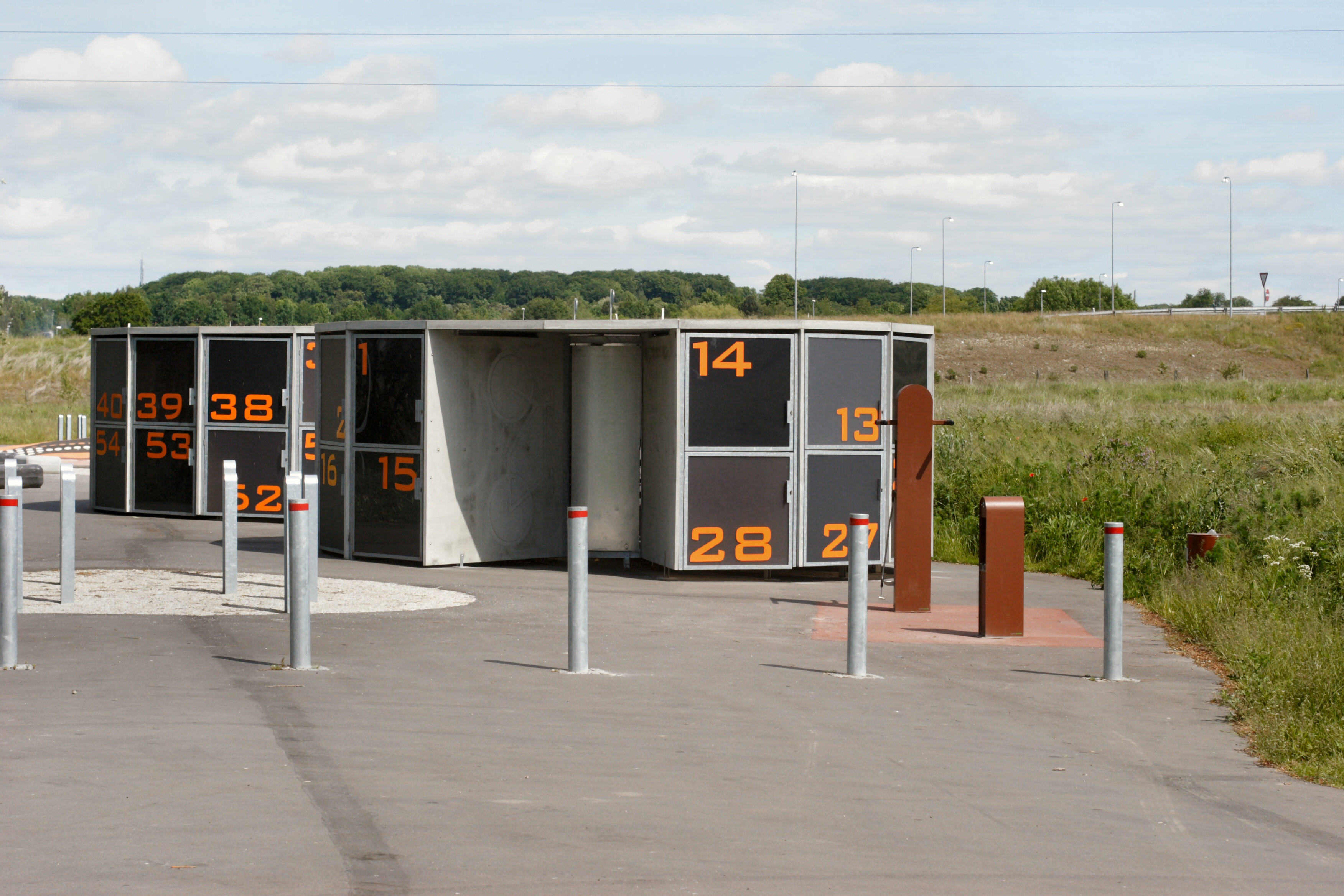 Park and bike terminal in Lystrup, Denmark